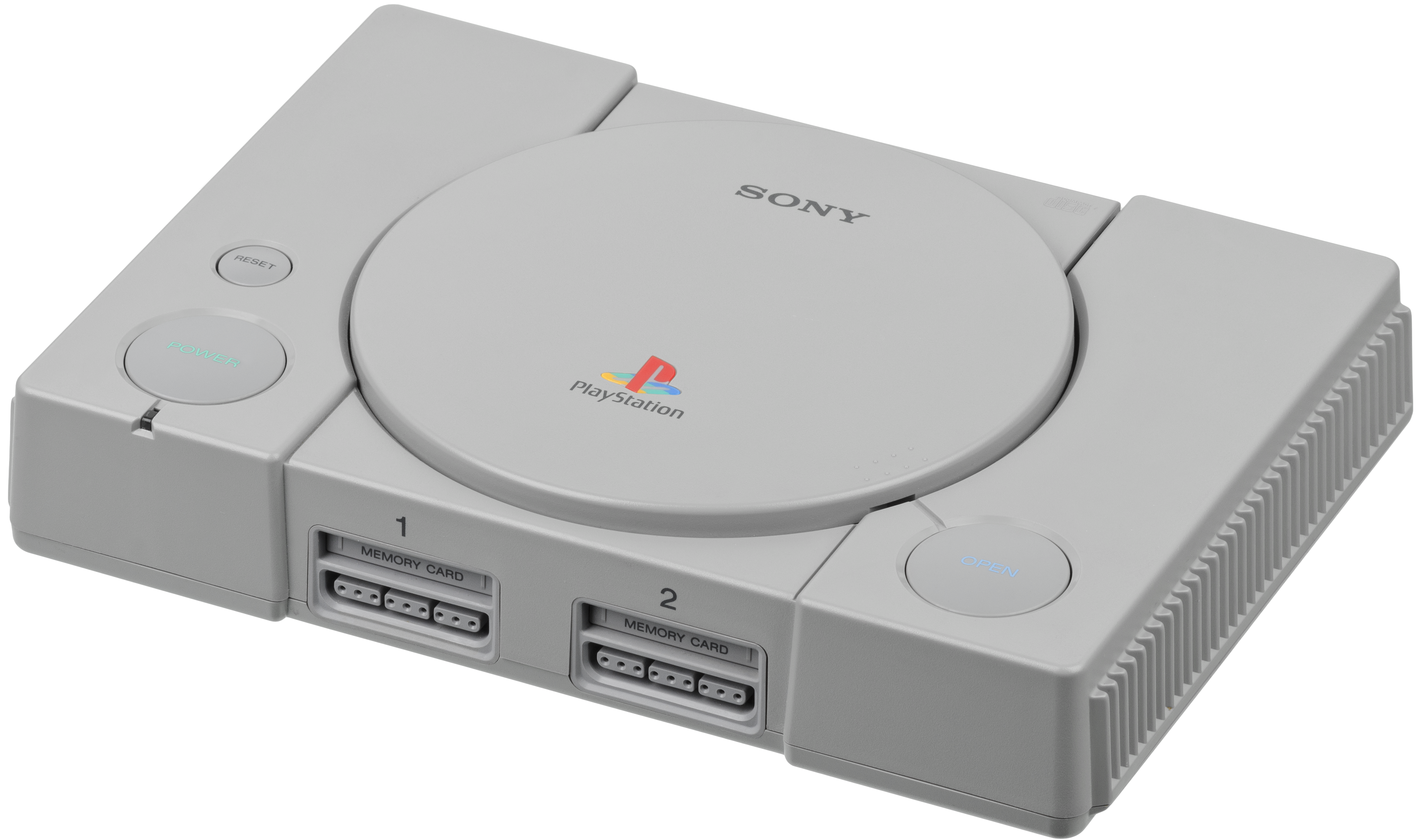 The Sony PlayStation video game console, a fifth generation system first released in 1995 in North America. A 5501 version of the original model, this features parallel I/O, serial I/O, AV multi out and AC in ports.